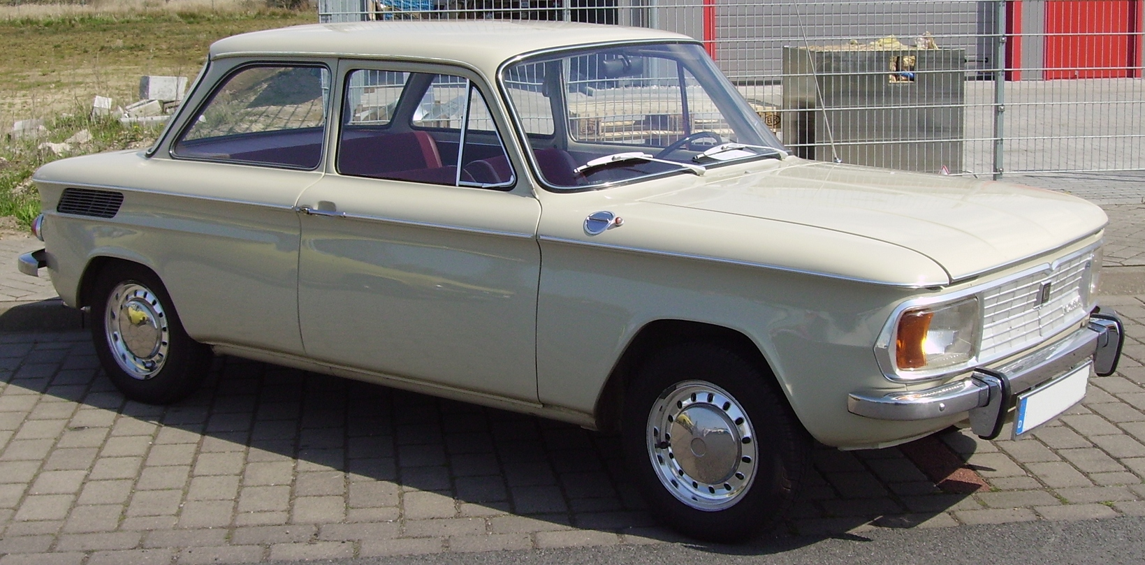 A NSU 1200